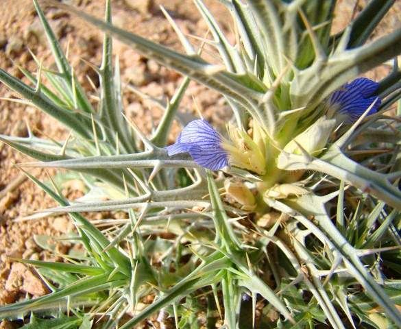 Blepharis ciliaris